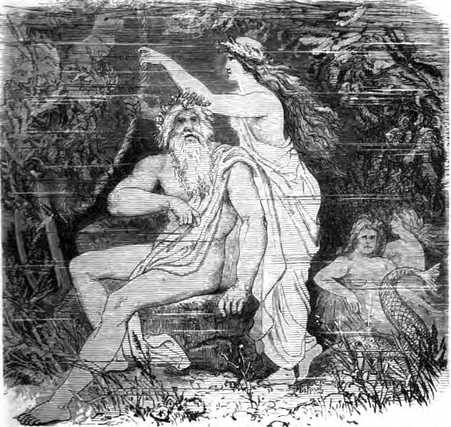 Captioned as "Ögir und Ran". Under sea, Ægir sits and rests his arm on a stone, while his wife Rán pulls on rope connected to an anchor. Mermaids lounge in the background.